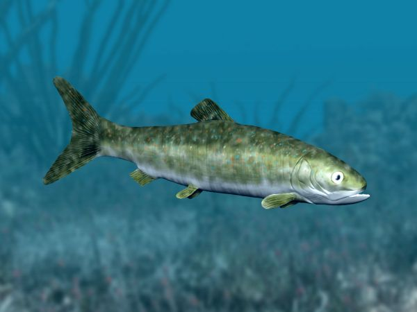 Pholidophorus